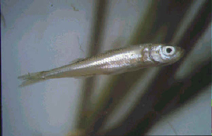 Picture of Atherina boyeri